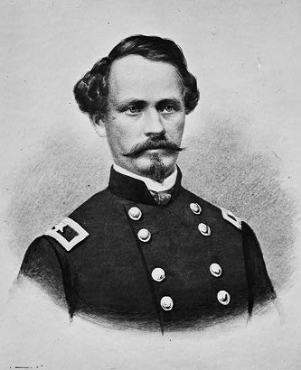 This is an edited version of the original, cropped to eliminate imperfections in the print and unnecessary white space. The photo shows Hovey wearing the one-star insignia of a brigadier general , so it must have been taken between 1862, when Hovey became a brigadier, and 1864, when he was promoted to major-general. TITLE: Elvin P. Hovey (Alvin P. Hovey) CALL NUMBER: LC-B813- 6387 C[P&P] REPRODUCTION NUMBER: LC-DIG-cwpb-06985 (digital file from original neg.) No known restrictions on publication. MEDIUM: 1 negative : glass, wet collodion. CREATED/PUBLISHED: [between 1860 and 1870] NOTES: Title from unverified information on negative sleeve. Forms part of Brady Civil War Photograph Collection (Library of Congress). SUBJECTS: United States--History--Civil War, 1861-1865. FORMAT: Portrait photographs 1860-1870. Glass negatives 1860-1870. REPOSITORY: Library of Congress Prints and Photographs Division Washington, D.C. 20540 USA DIGITAL ID: (digital file from original neg.) cwpb 06985 CARD #: cwp2003003904/PP